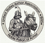 Representation of United States Army Armor Order Noble Patron of Armor, United States Army Cavalry